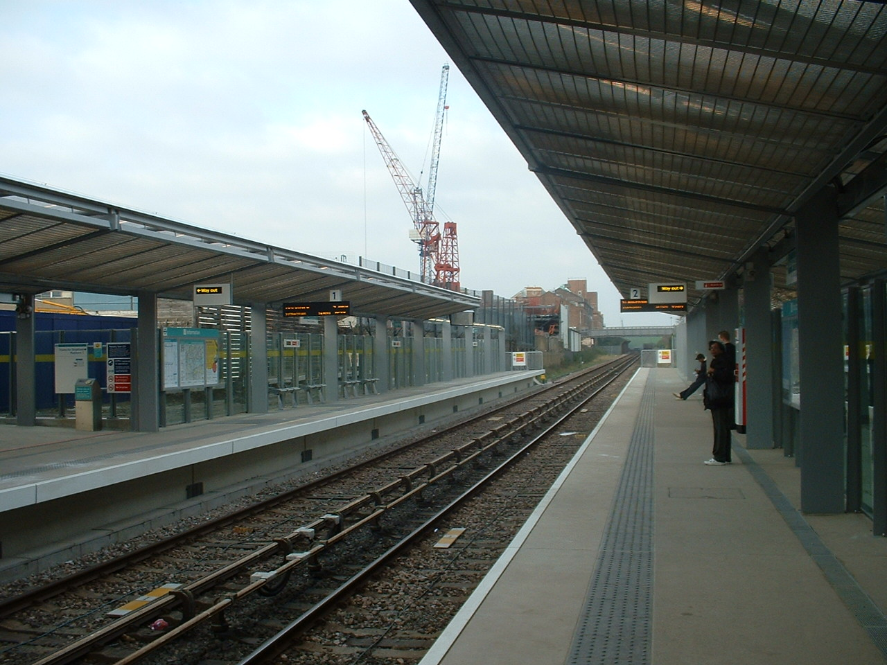 Langdon Park DLR station looking north